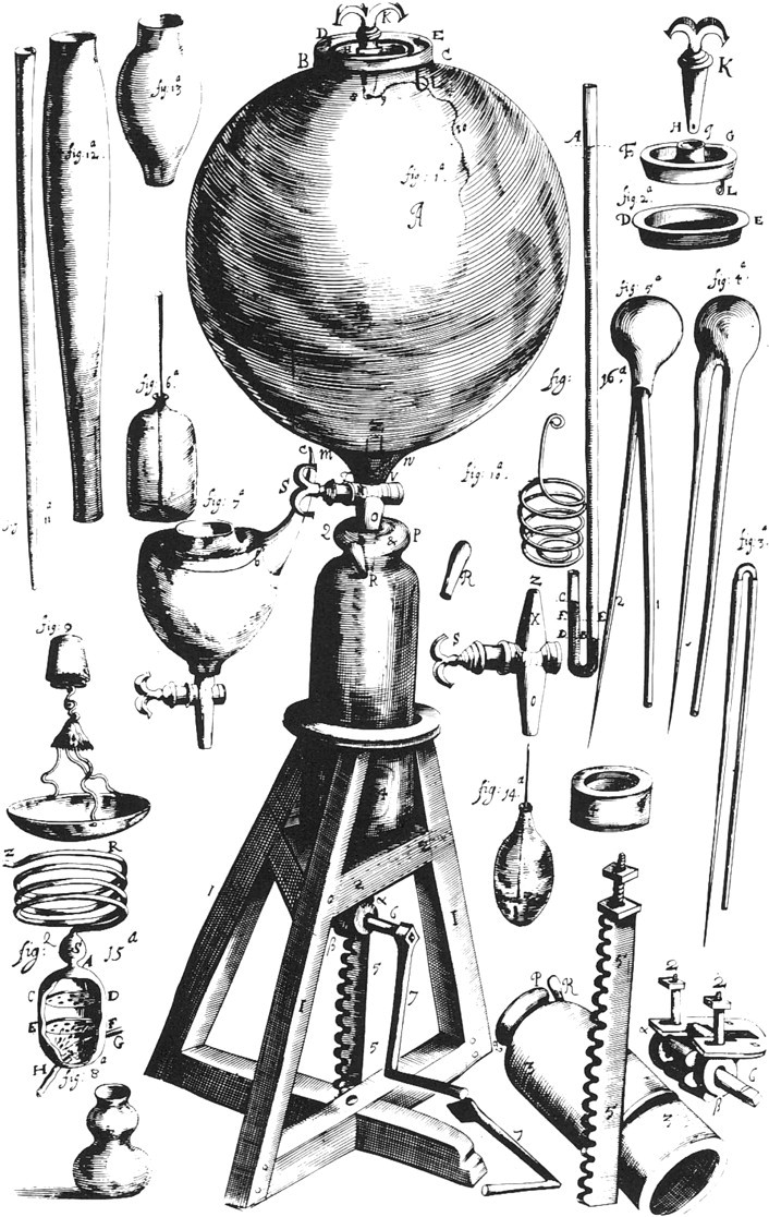 Drawing of Robert Boyle's air pump